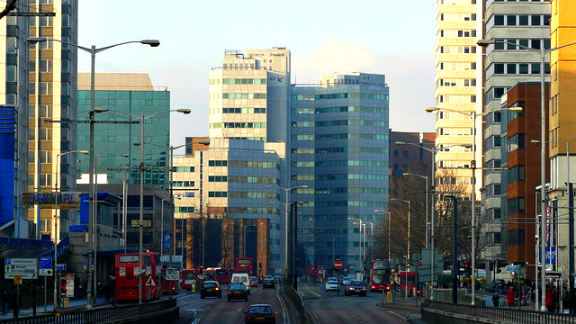 Street Scene, Wellesley Road, Croydon Wellesley Road, in all its glory. Photograph taken from above the underpass.